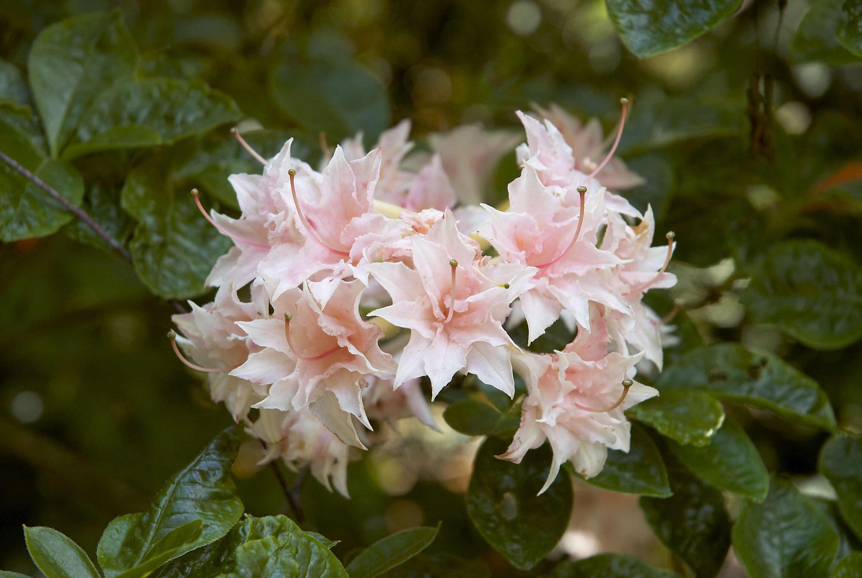 Rhododendron 'Raphael De Smet' in arboretum Belmonte, Generaal Foulkesweg 94 of the university Wageningen, Netherlands